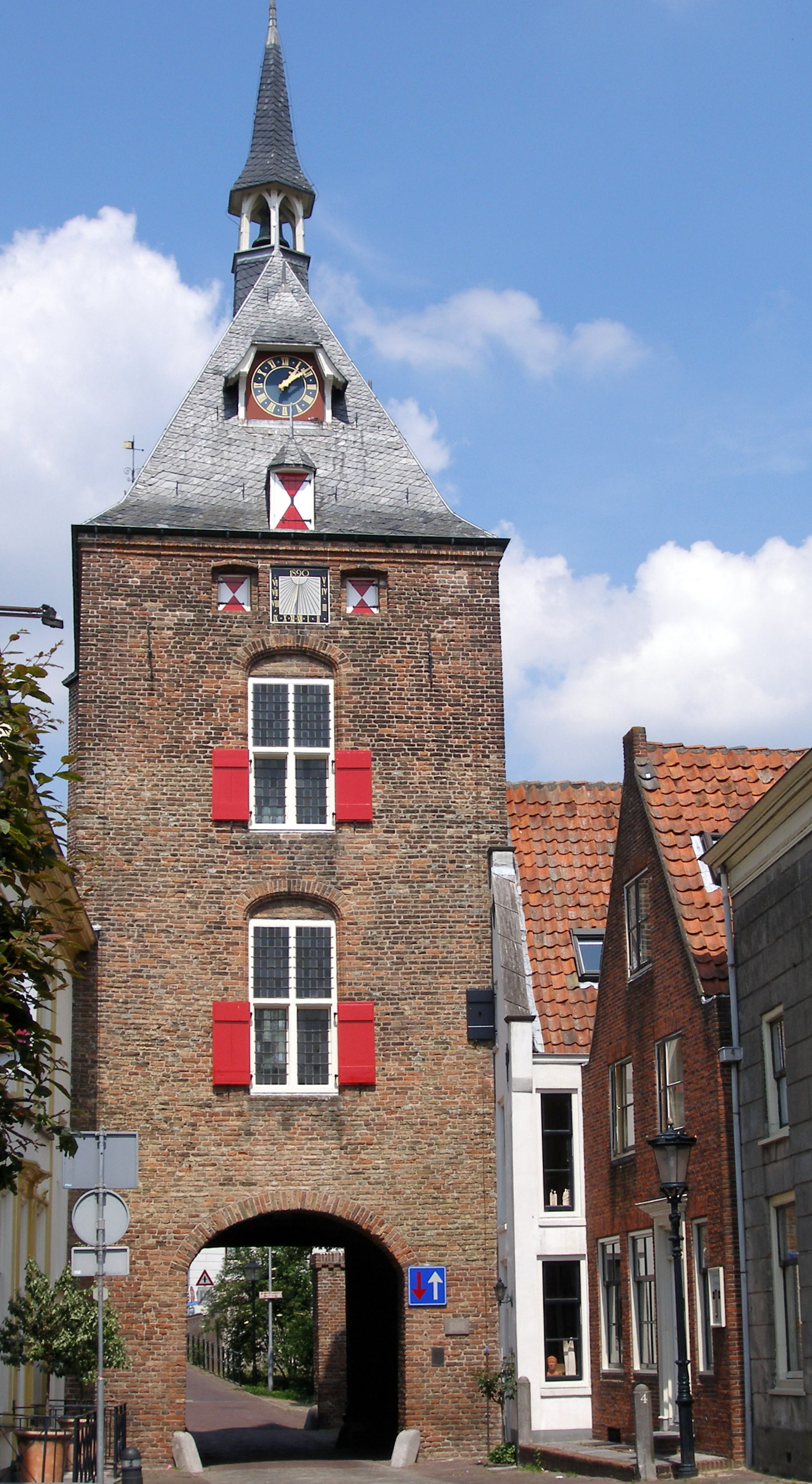 City gate Lekpoort in Vianen, the Netherlands. Built 15th century; windows and steeple 16th century. The bell was cast in 1647 by François Hemony. Dimensions: 27 x 9 x 7 m. (Source: information sign at the gate)